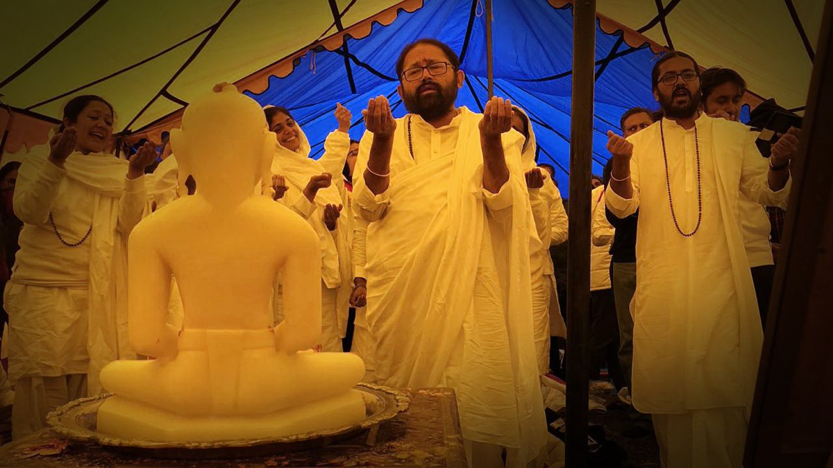 One of the Jain sects worshipping an idol, which they claim is a Tirthankar idol.